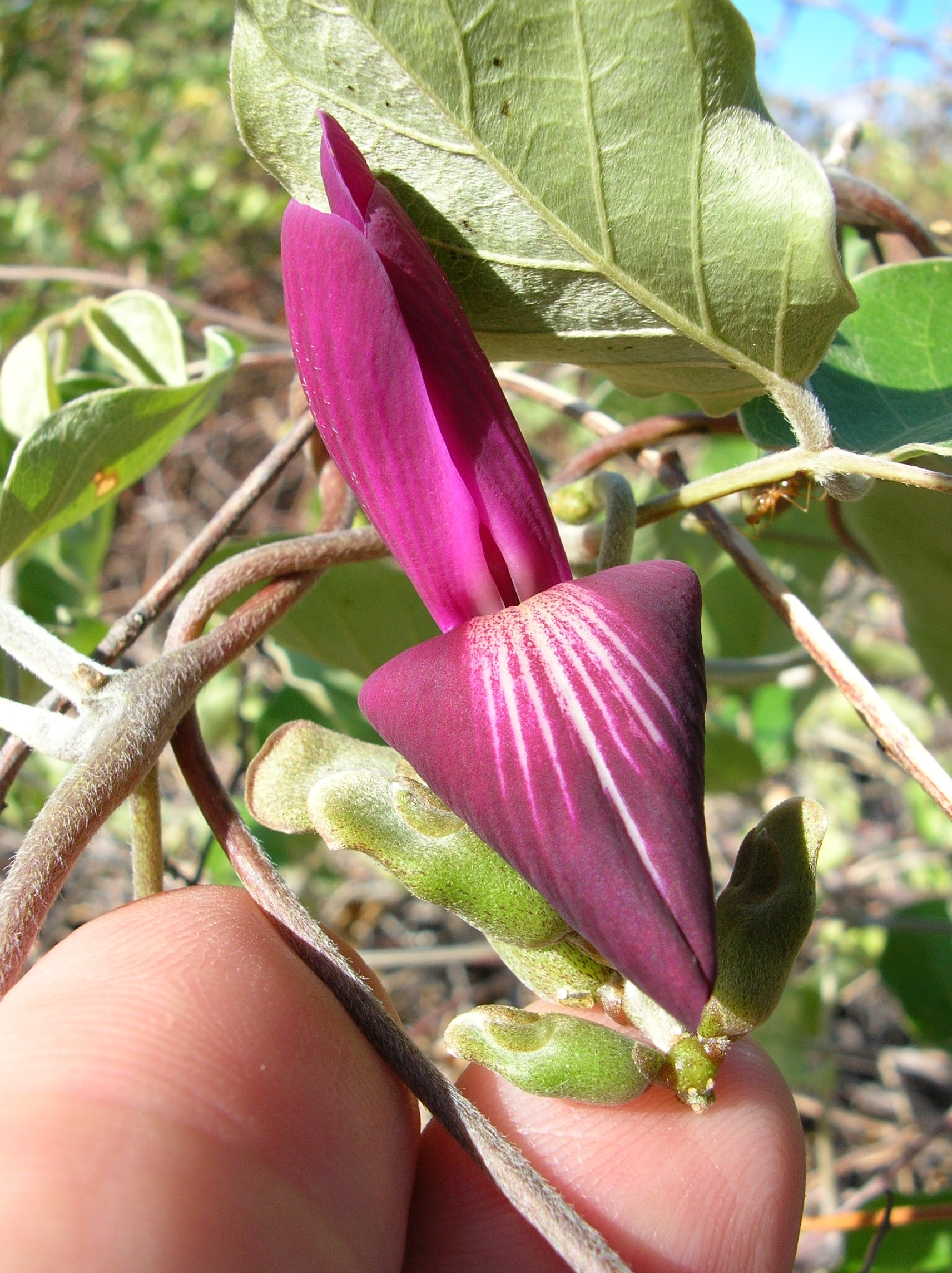 Canavalia pubescens (flower). Location: Maui, LaPerouse